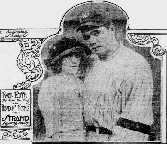 Newspaper advertisement for the American baseball film Heading Home (1920), also known as Headin' Home, with Ruth Taylor and Babe Ruth, on page 4 of the August 6, 1921 Duluth Herald. Note: This is not the same Ruth Taylor as Ruth Taylor (actress) (who started appearing in films in 1925).